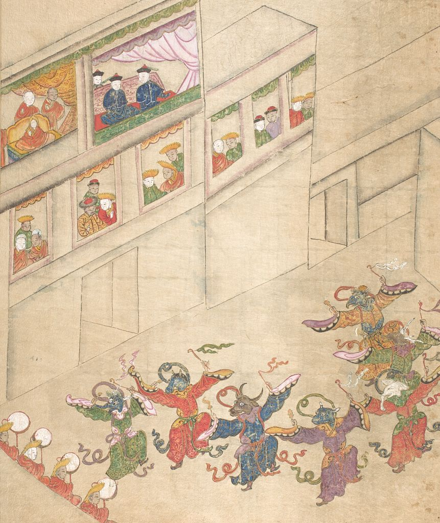 Finding a Dalai Lama (6/8), Qing Dynasty